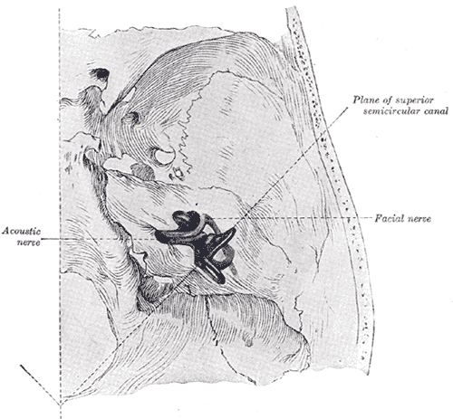 Position of the right bony labyrinth of the ear in the skull, viewed from above. The temporal bone is considered transparent and the labyrinth drawn in from a corrosion preparation. (Spalteholz.)